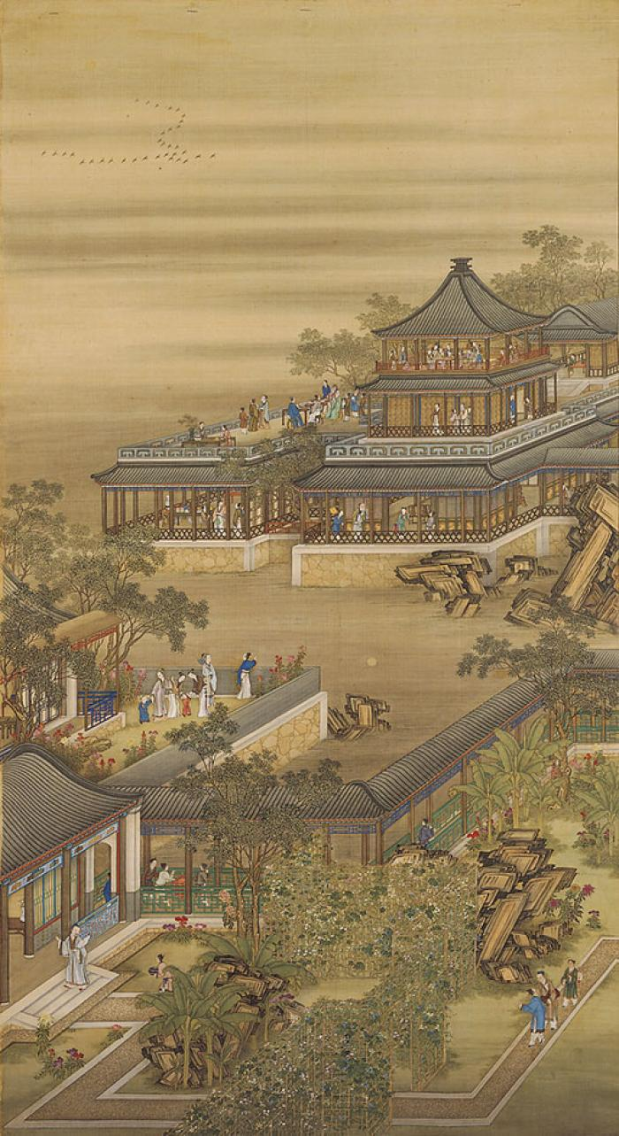 Portraits of the Yongzheng Emperor Enjoying Himself during the 8th lunar month (one of a set of twelve), by anonymous court artists. Yongzheng period, (1723—35). Hanging scroll, colour on silk. National Palace Museum, Taipei.